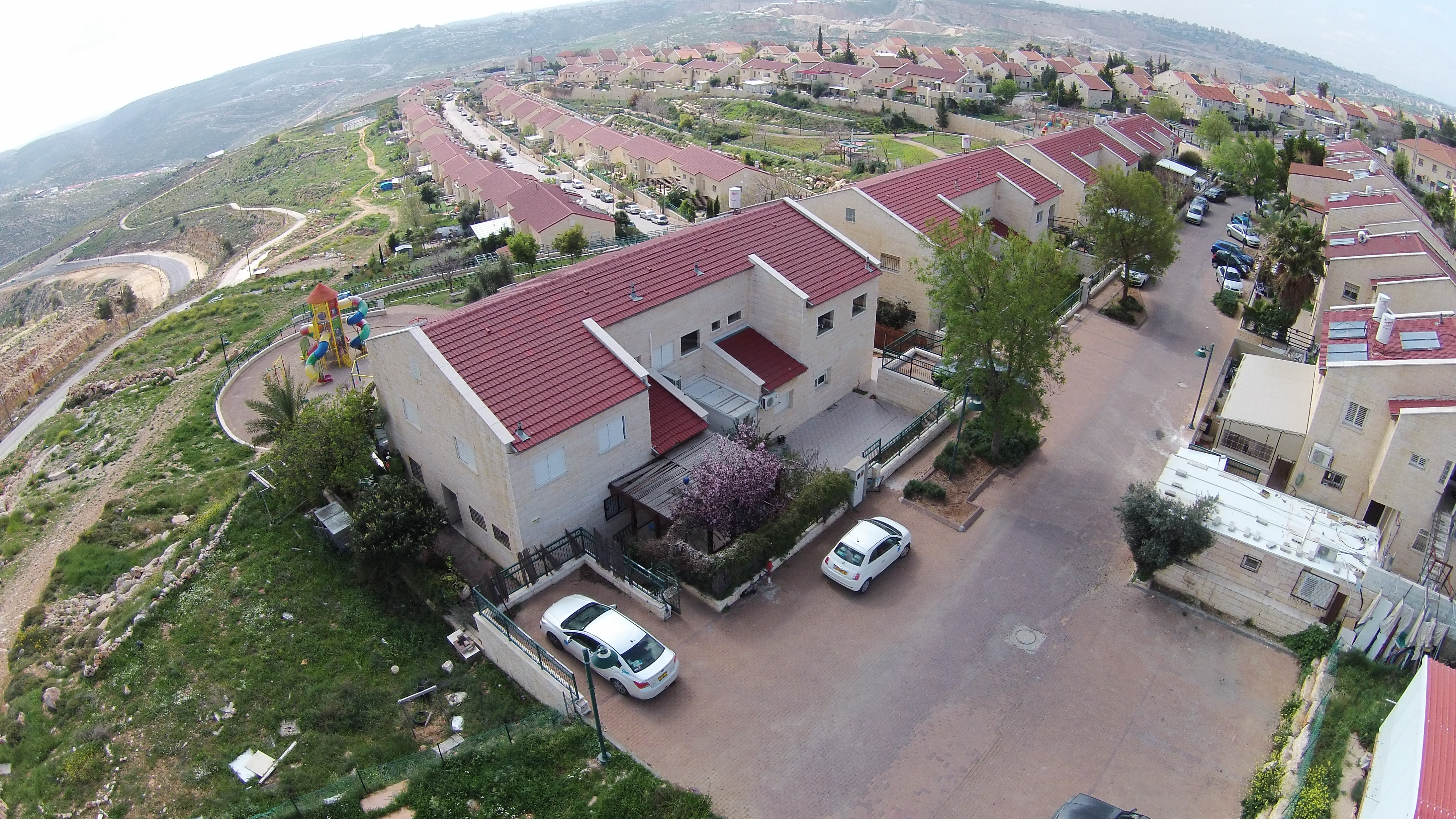 Kochav Yaakov, Southern Playground 2